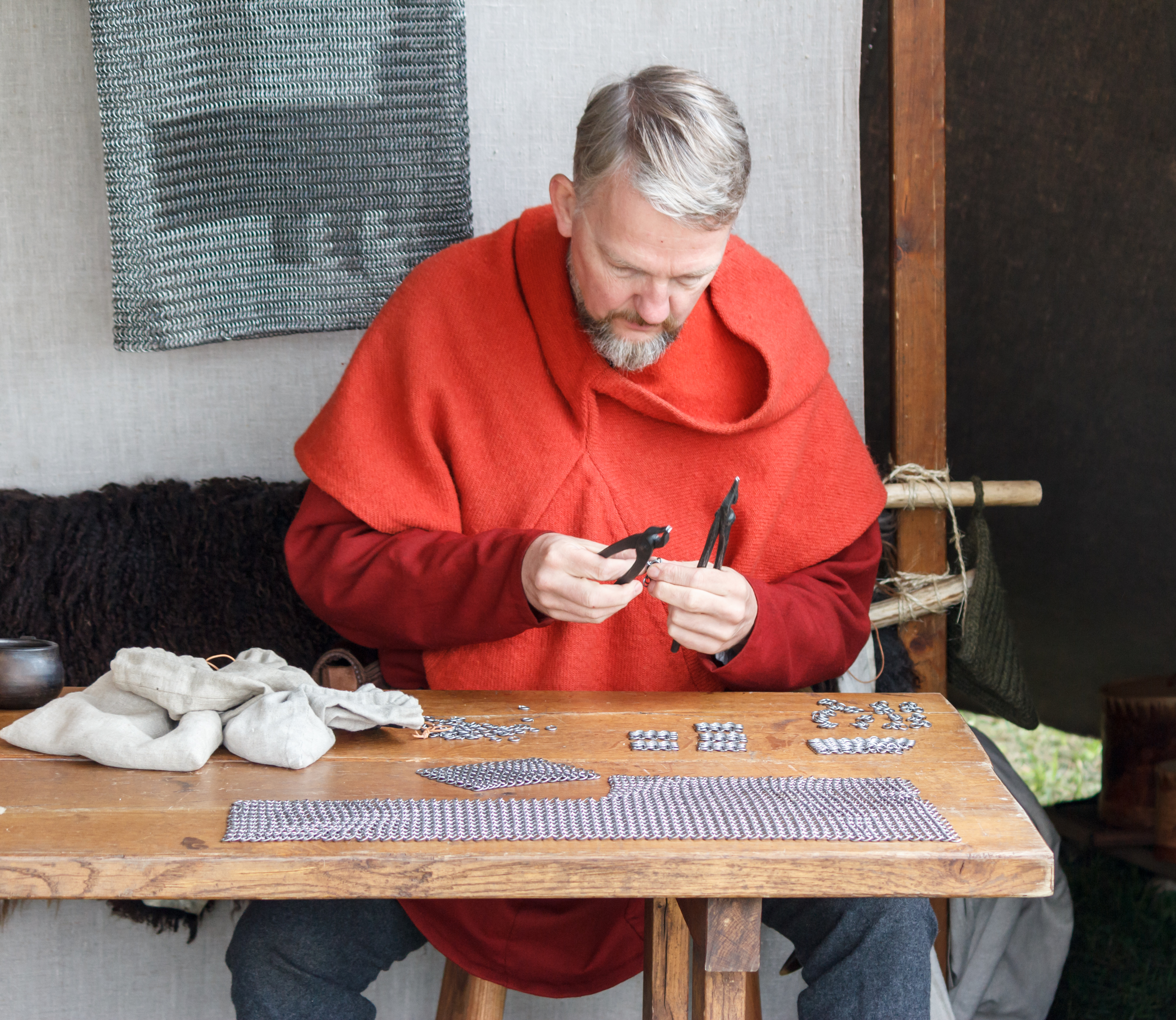 The process of making a chainmail. From a stand at the yearly market in Hvolris Jernalderby, Denmark